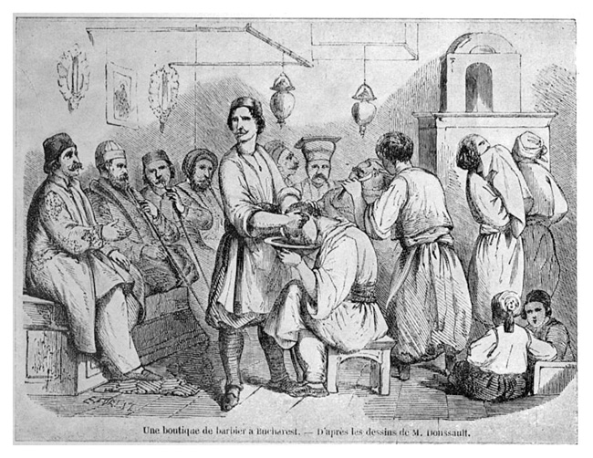 Barbershop in Bucharest, around 1842. Wood engravement 11x15cm